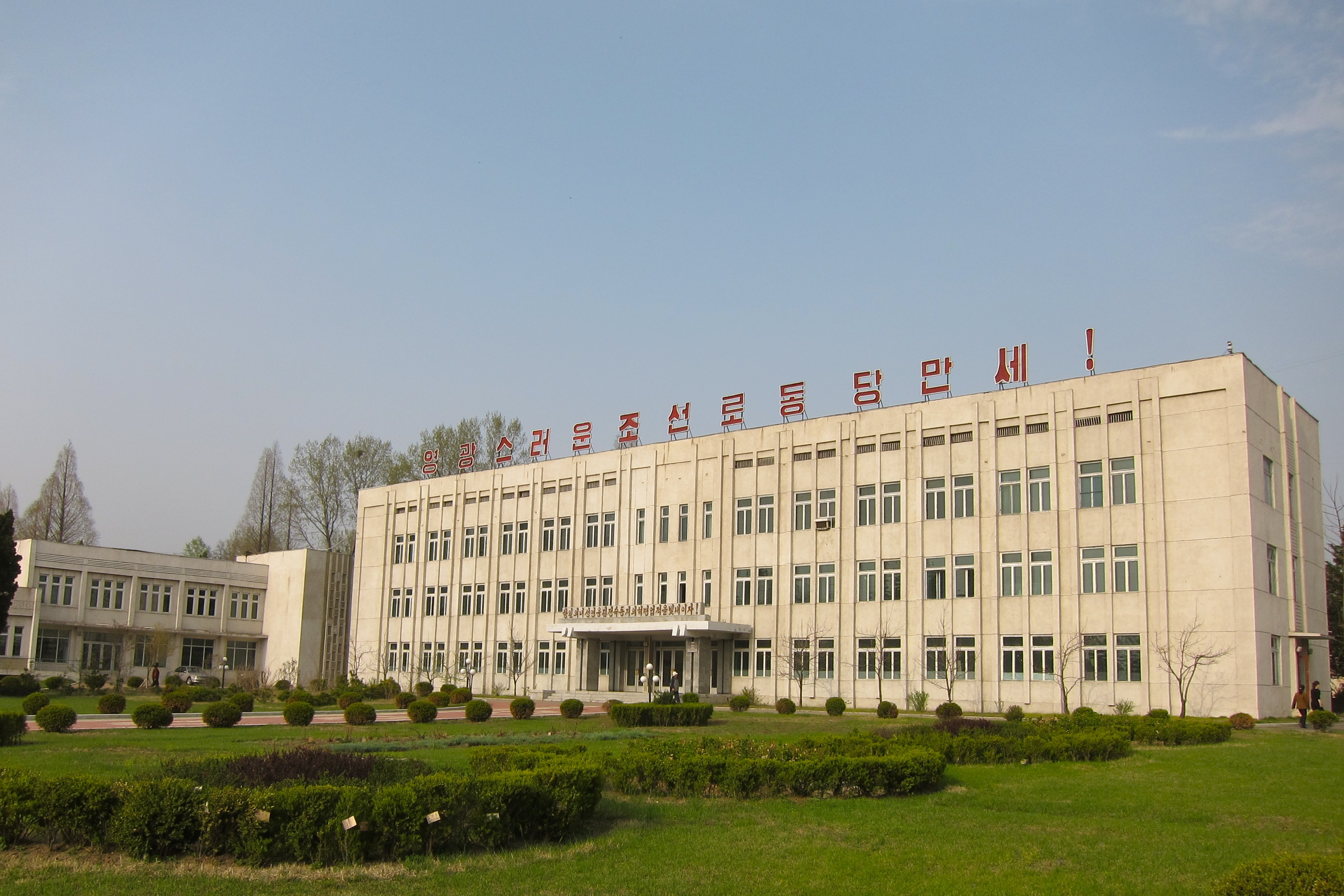 Pyongyang Film Studios; Pyongyang, DPRK (North Korea).